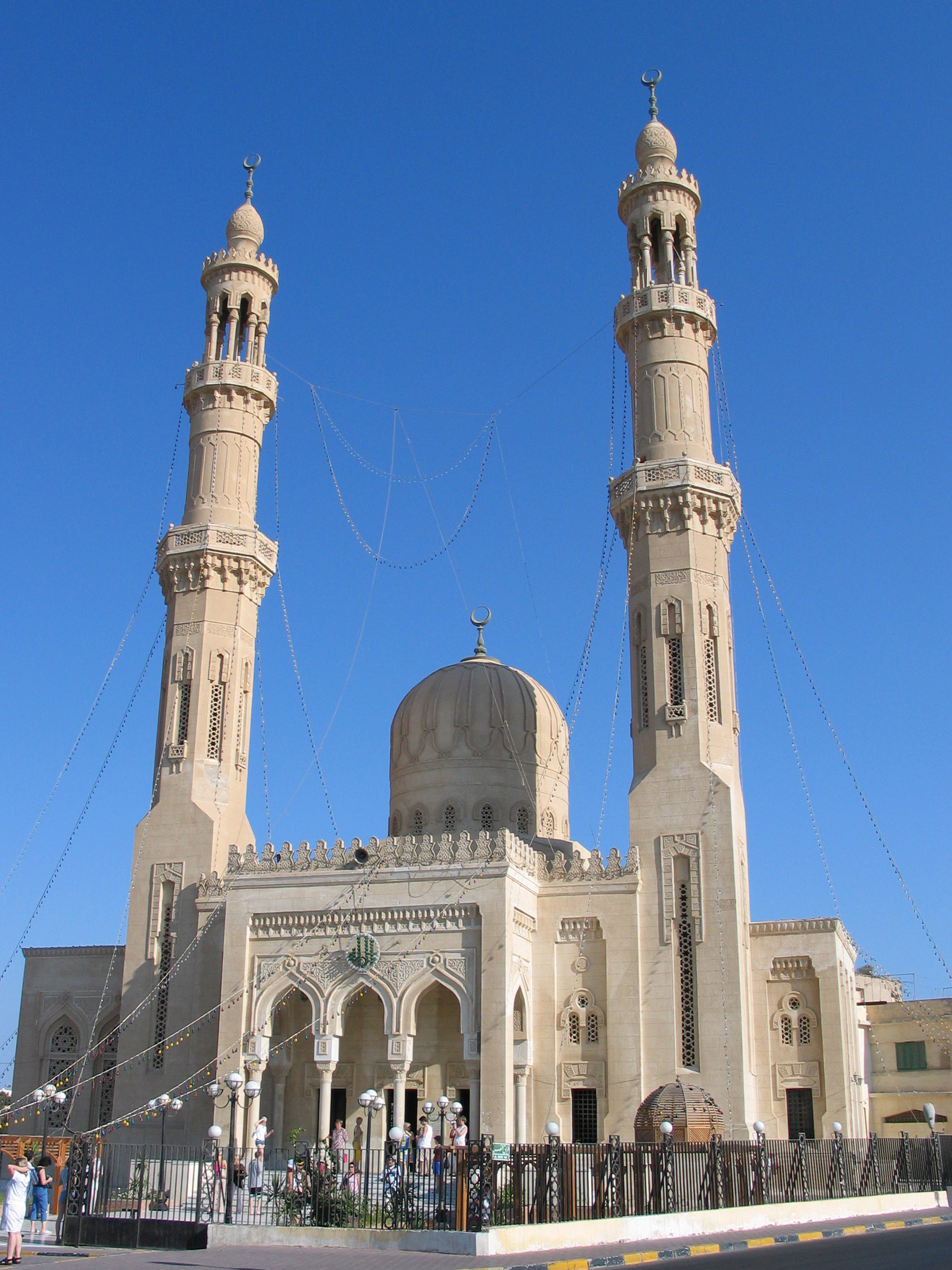 Egypt, Red Sea Coast, Hurghada. Main city mosque, Hurghada.